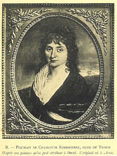 Charlotte Robespierre. From Buffenoir's "Portraits de Robespierre".